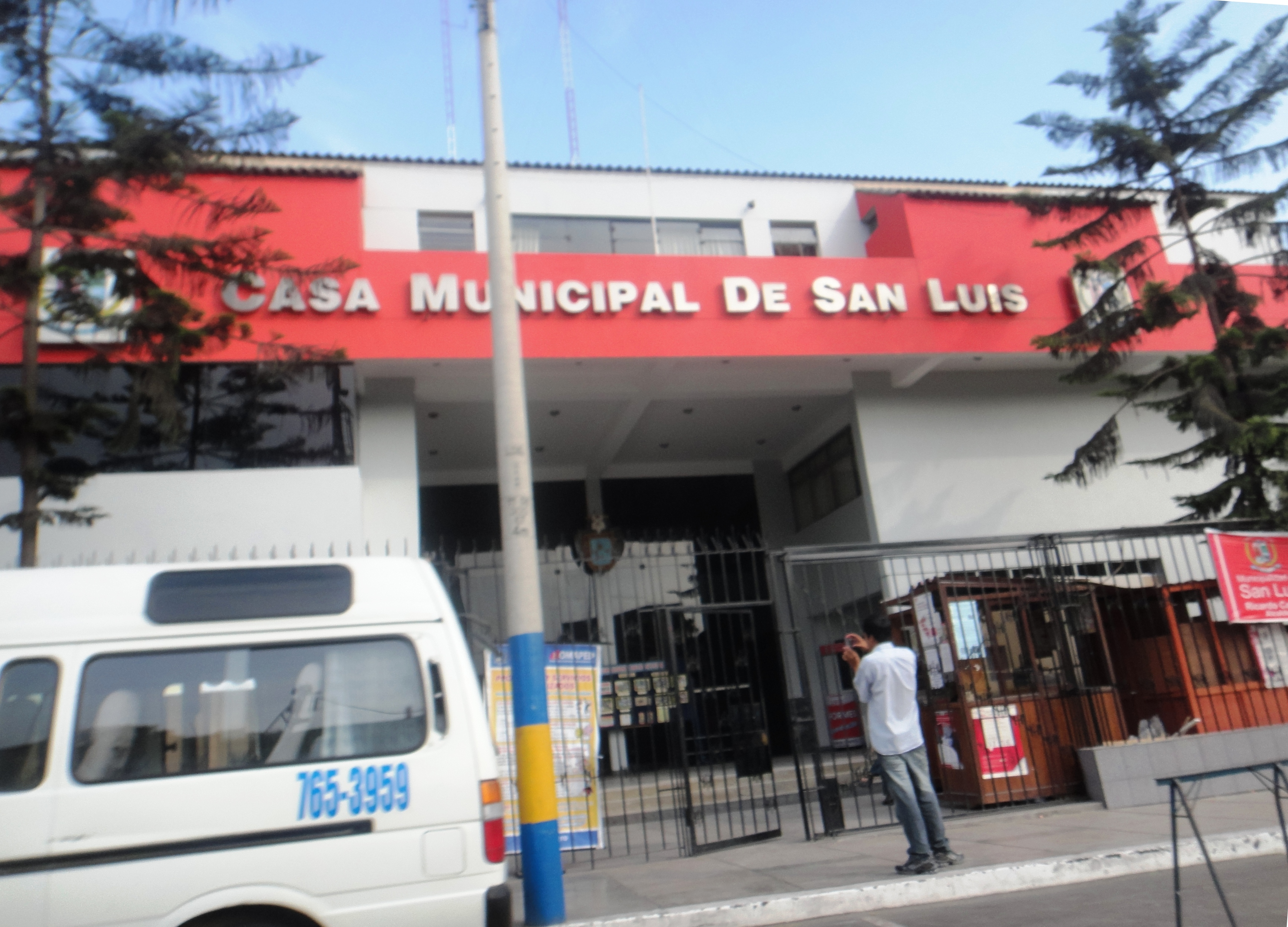 Town hall of San Luis District in Lima, Peru.